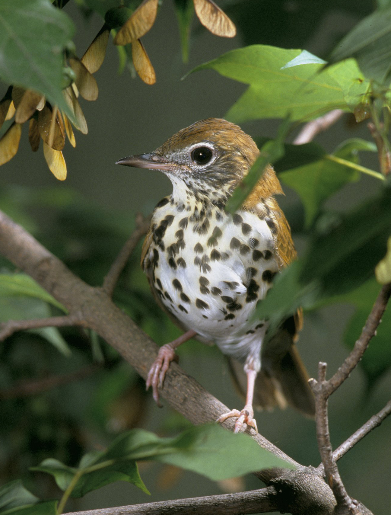 Wood Thrush